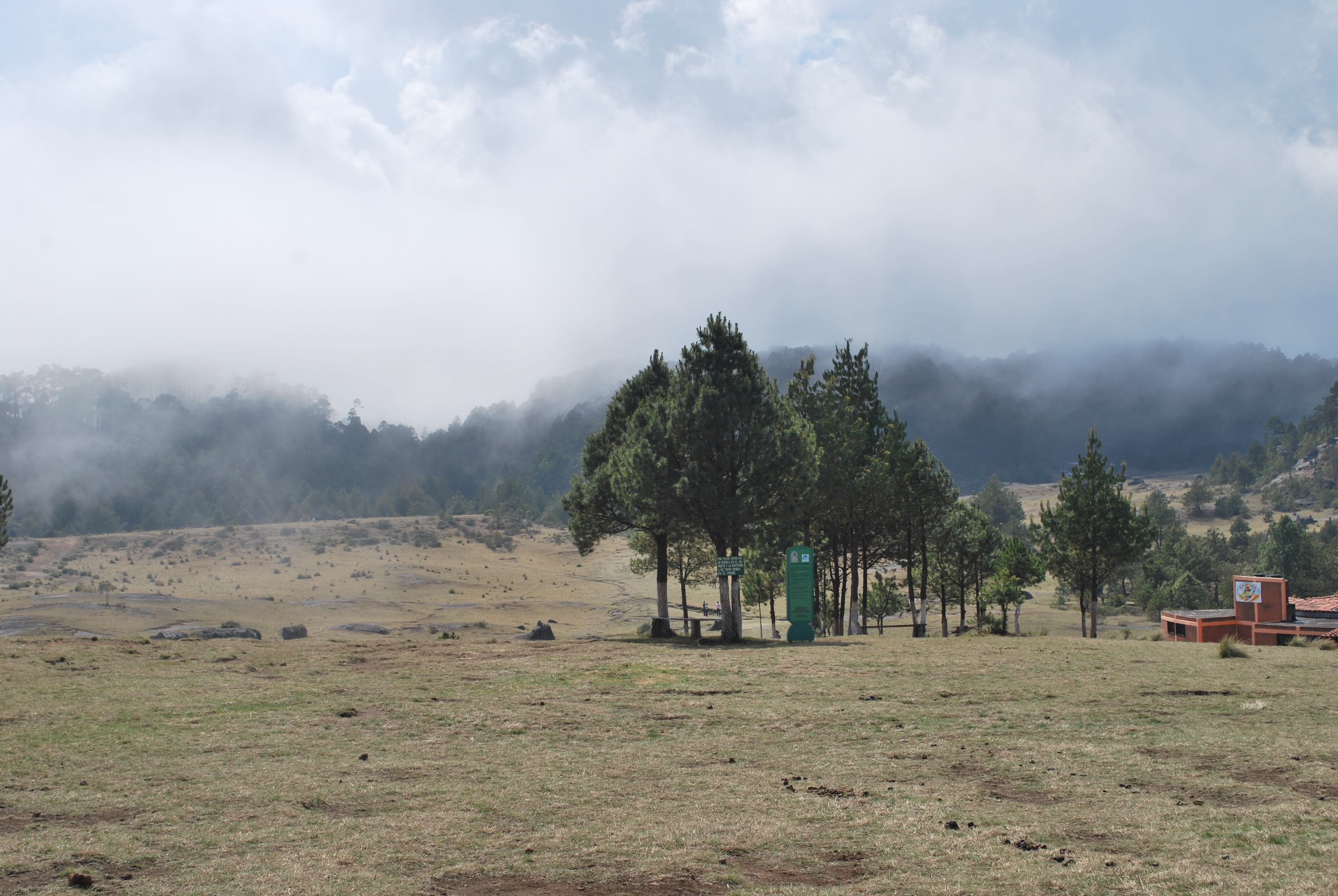 Entering the Valle de las Piedras Encimadas in Zacatlán, Puebla, Mexico